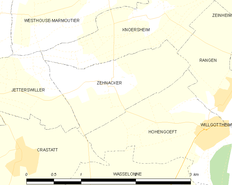 Map of French municipality